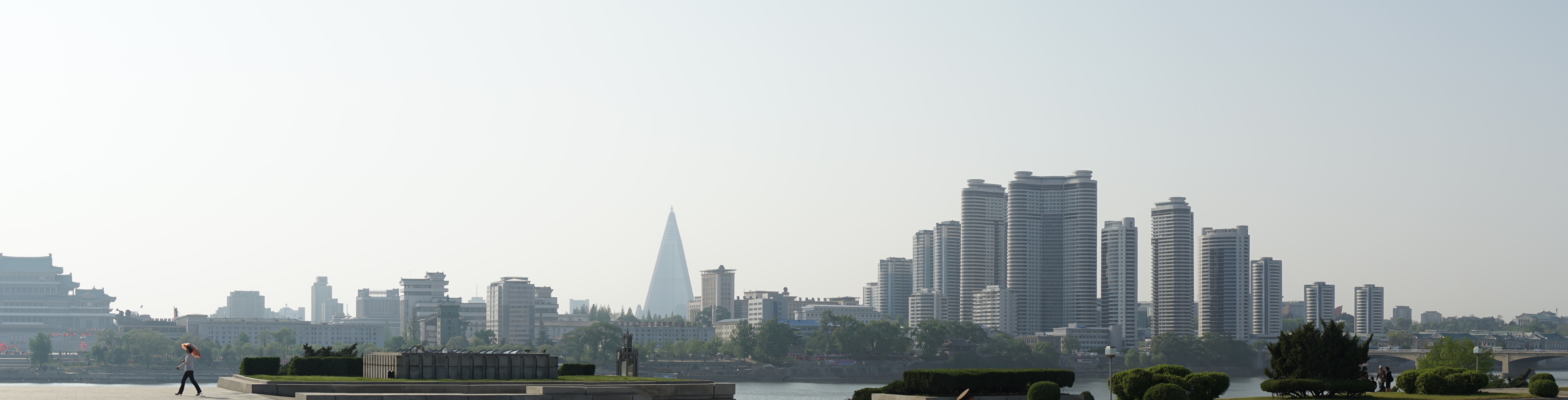 A panorama view of Pyongyang, North Korea